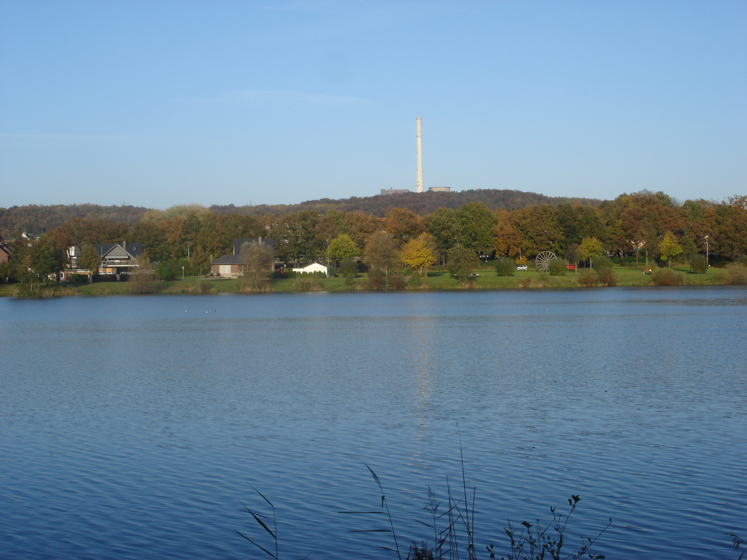 Panoramashot of the Aasee (Lake Aa) in the city of Ibbenbüren. In the background is the chimney of the powerplant in Ibbenbüren.